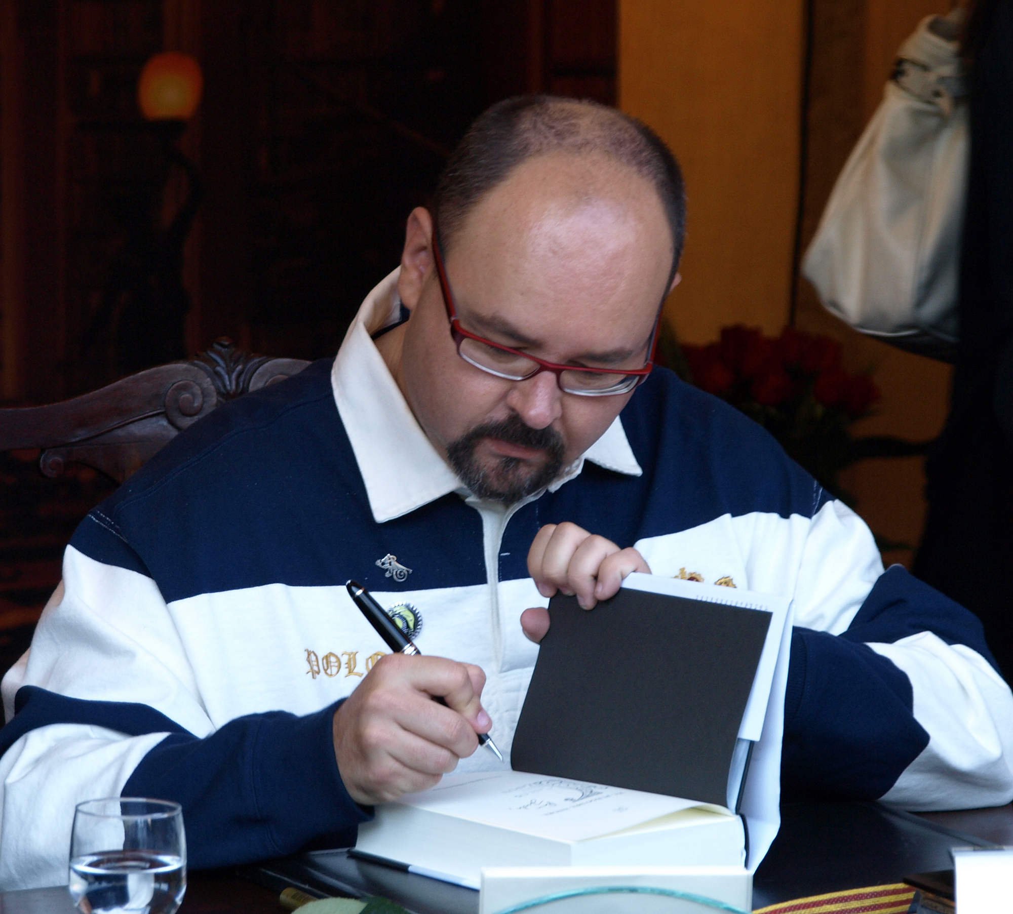 Spanish writer: Carlos Ruiz Zafón in Barcelona